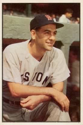 1953 Bowman Color baseball card of Lou Boudreau of the Boston Red Sox #57. PD-not-renewed.